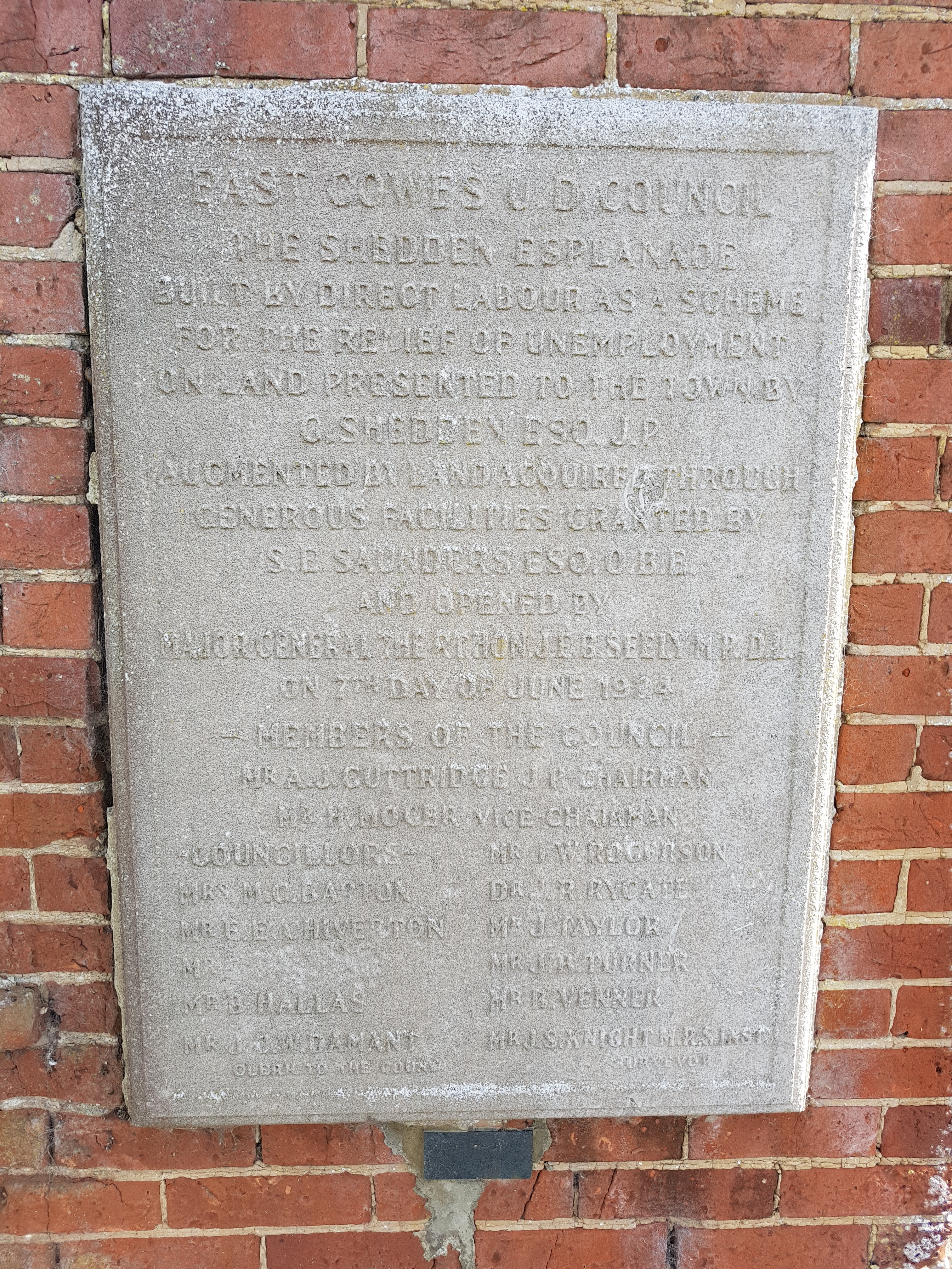 A plaque to commemorate the opening of the Shedden Esplanade.